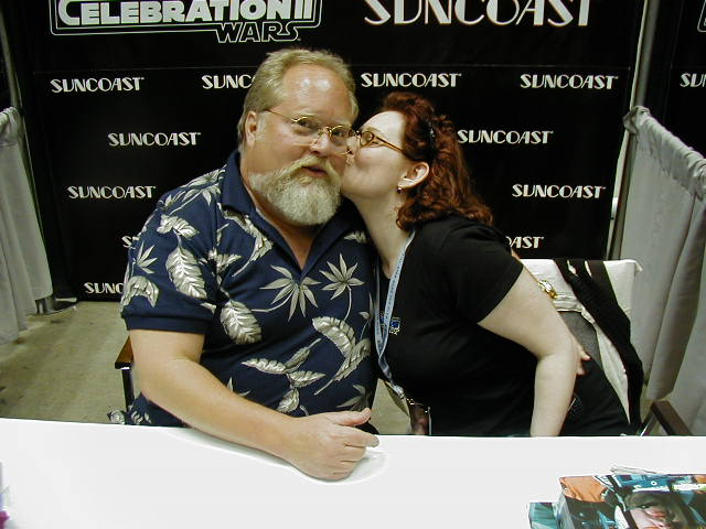 William Hootkins the man behind porkins gets a smooch at celebration 2